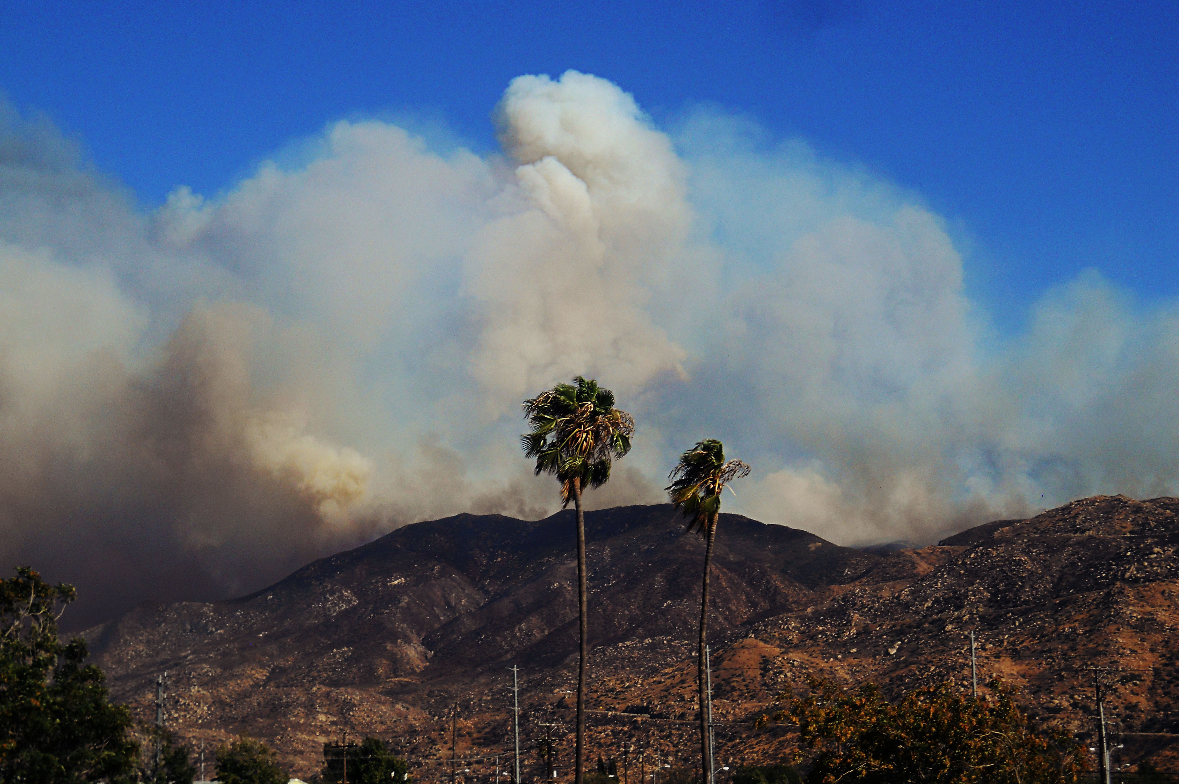 The Silver fire burning south of Banning on Wednesday evening